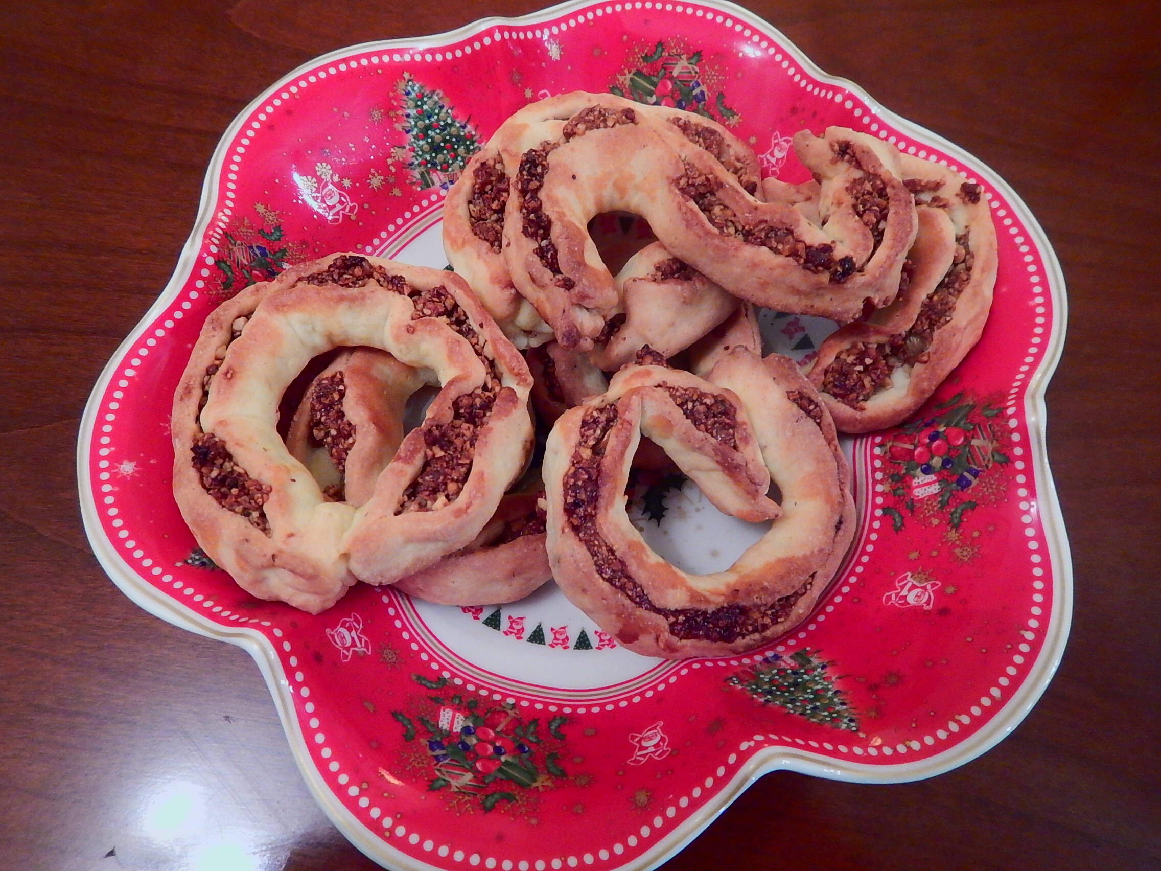 the "Piccillatti", typical biscuits with hazelnuts prepared above all for Christmas at Fondachelli-Fantina,Peloritani mountains, Sicily